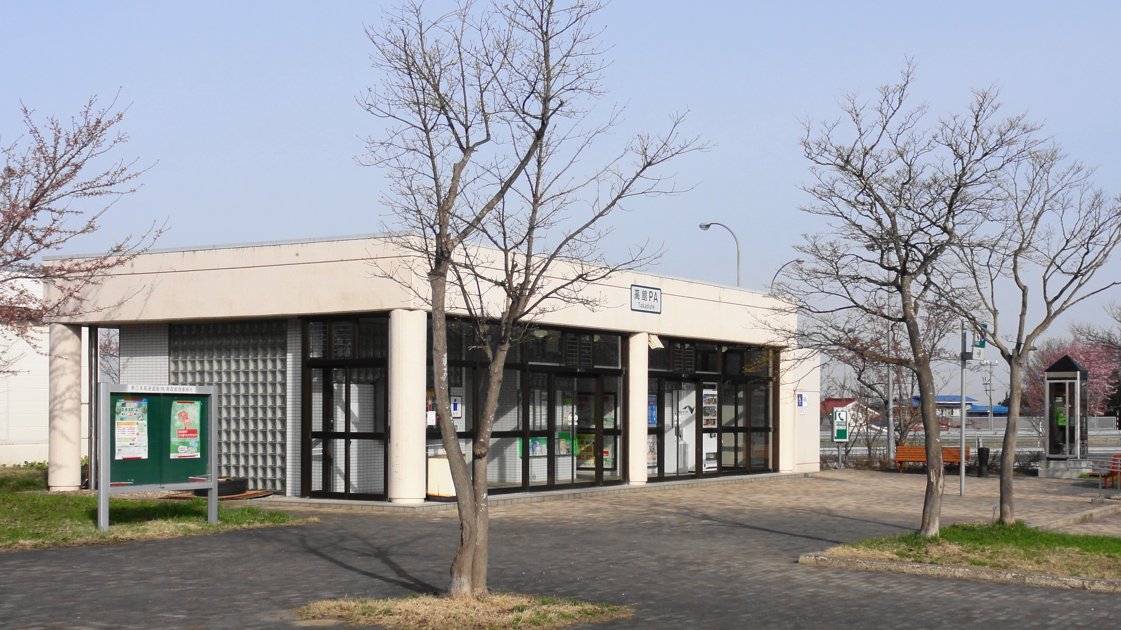 Takadate Parking Area,Aomori prefecture, Japan